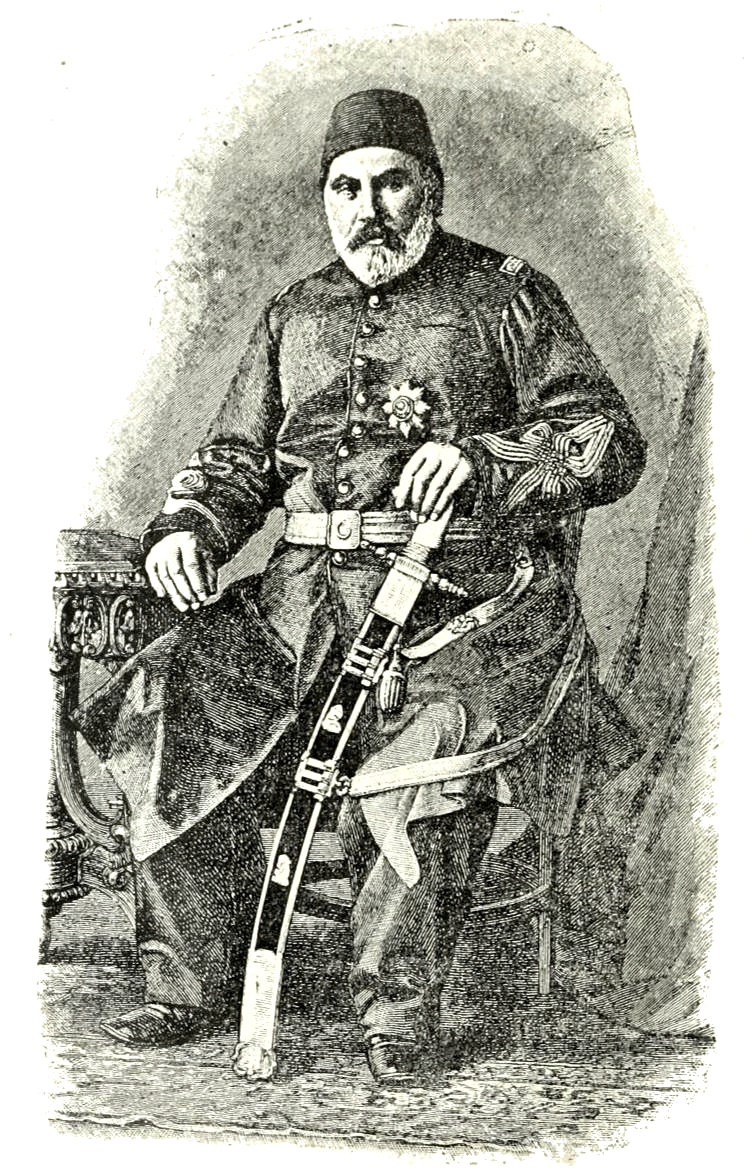 Portrait of Chirpanli Abdülkerim Pasha (1807-1883) Ottoman general. Chief of Staff of the Ottoman Army during the 1877-1878 Russo-Ottoman War.